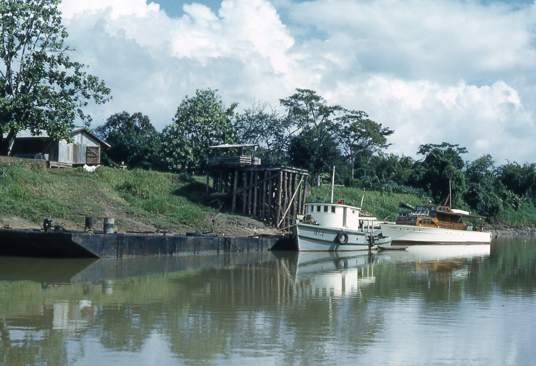 View of Alamacamba on the Prinzapolka during the dry season - where barges of sulfur and sundry mining supplies are off loaded and trucked overland to Siuna and Rosita mines - note the low river level during the dry season which occurs during the winter months